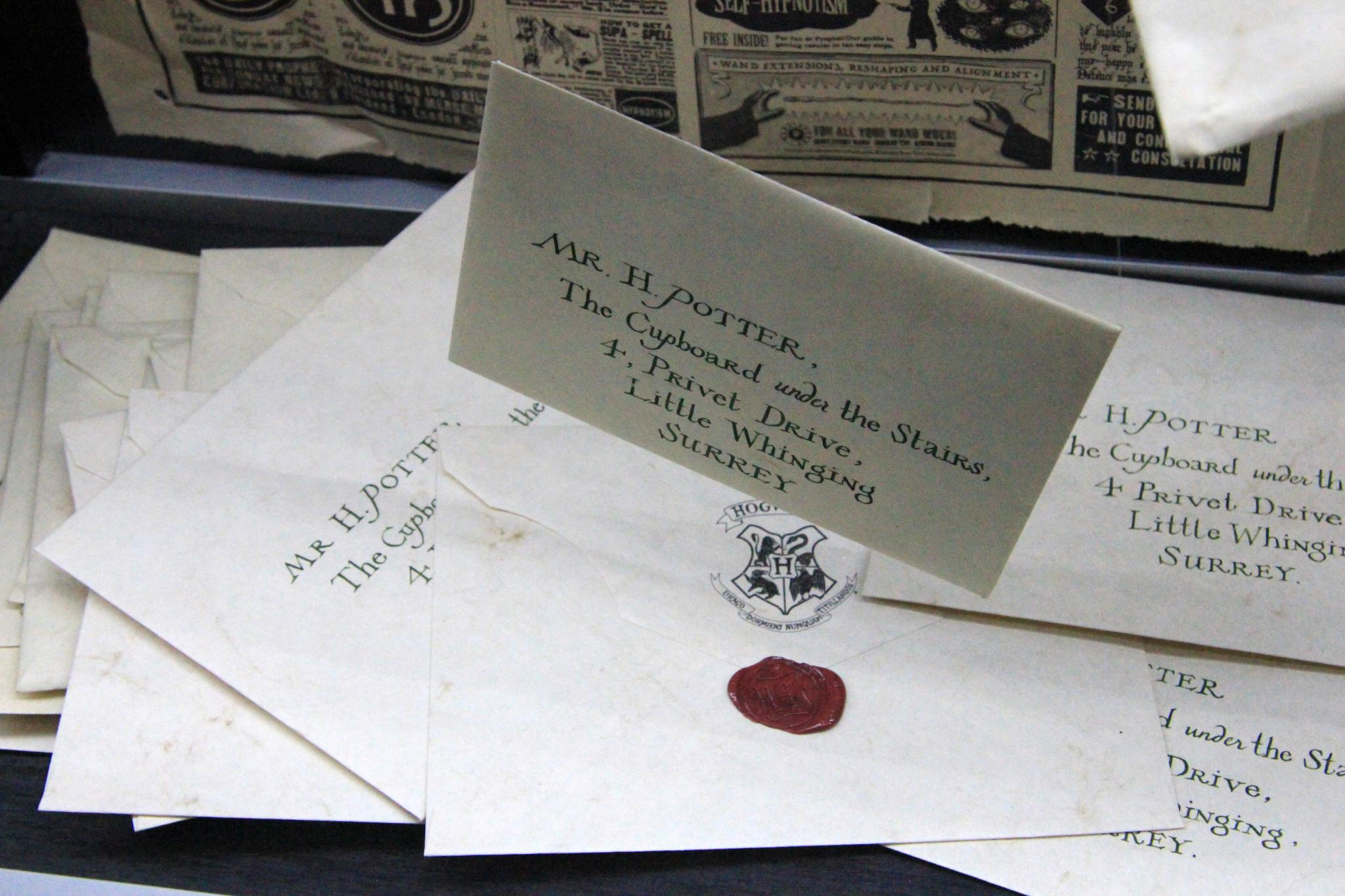 Warner Bros. Studio Tour London: The Making of Harry Potter.